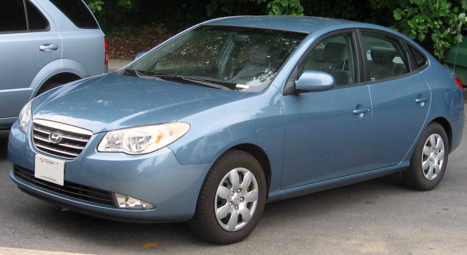 2007 Hyundai Elantra photographed in USA.